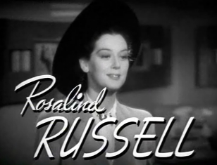 Screenshot of Rosalind Russell from the trailer for the film The Feminine Touch.